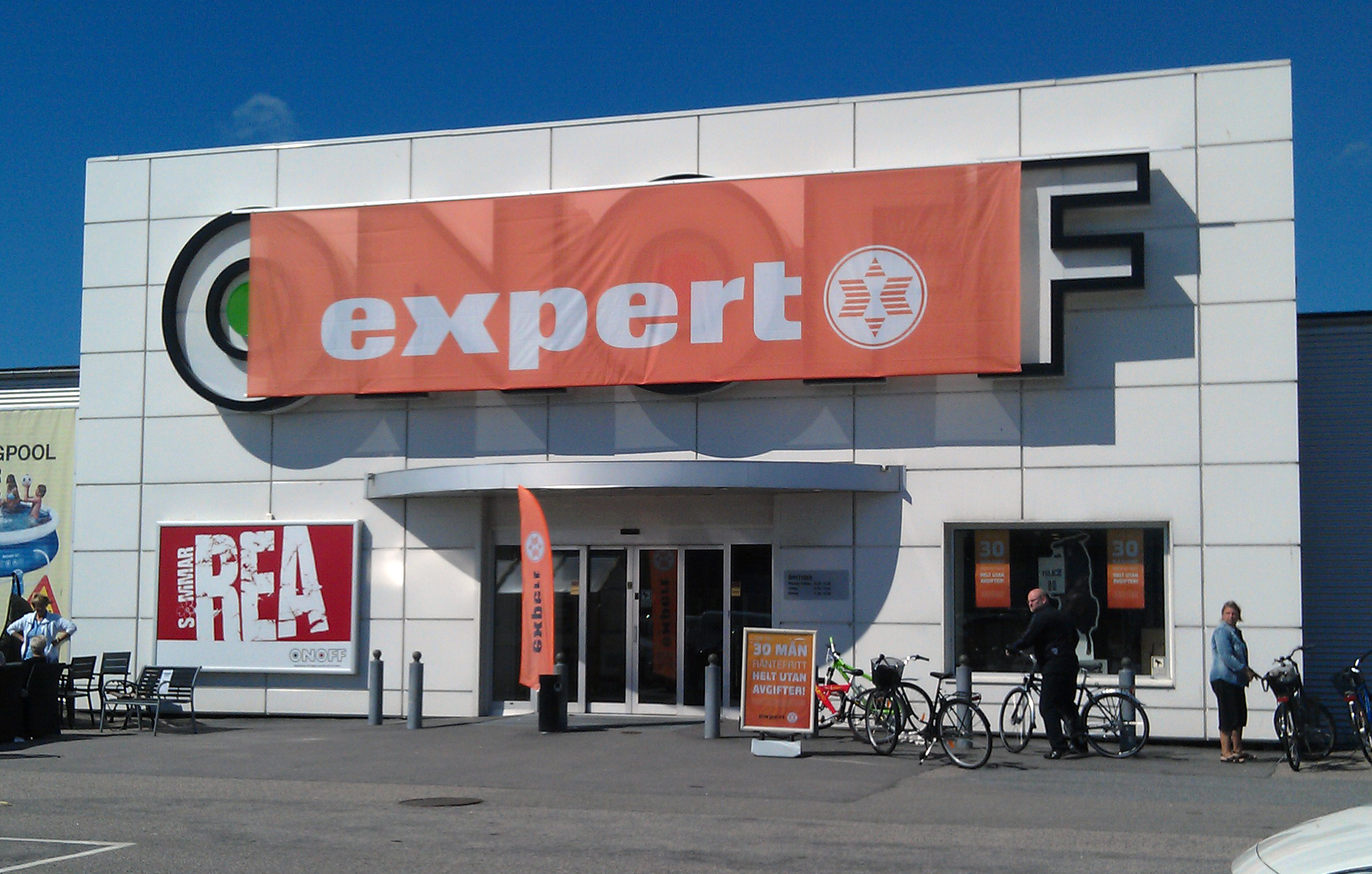 Expert (former OnOff, the old sign is visable in the background) in Varberg, Halland, Sweden.